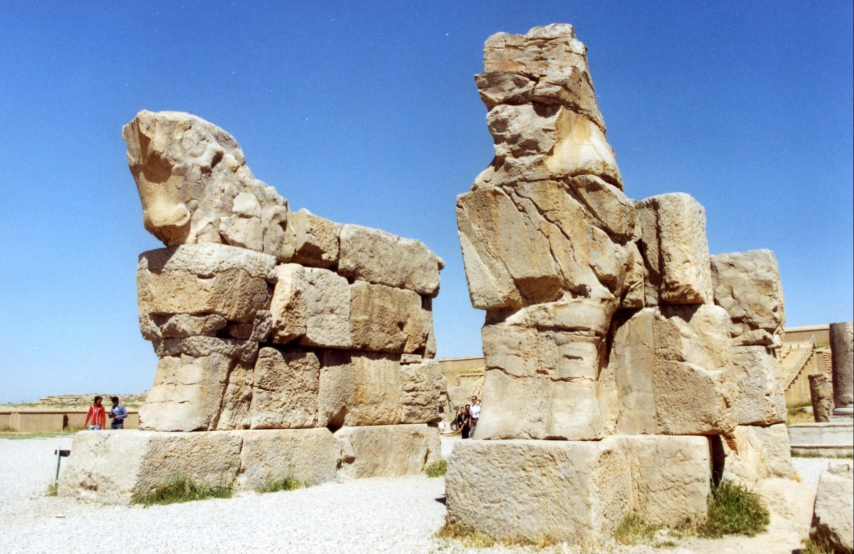 Collossus Bulls Picture taken by myself in persepolis, Iran April 2006